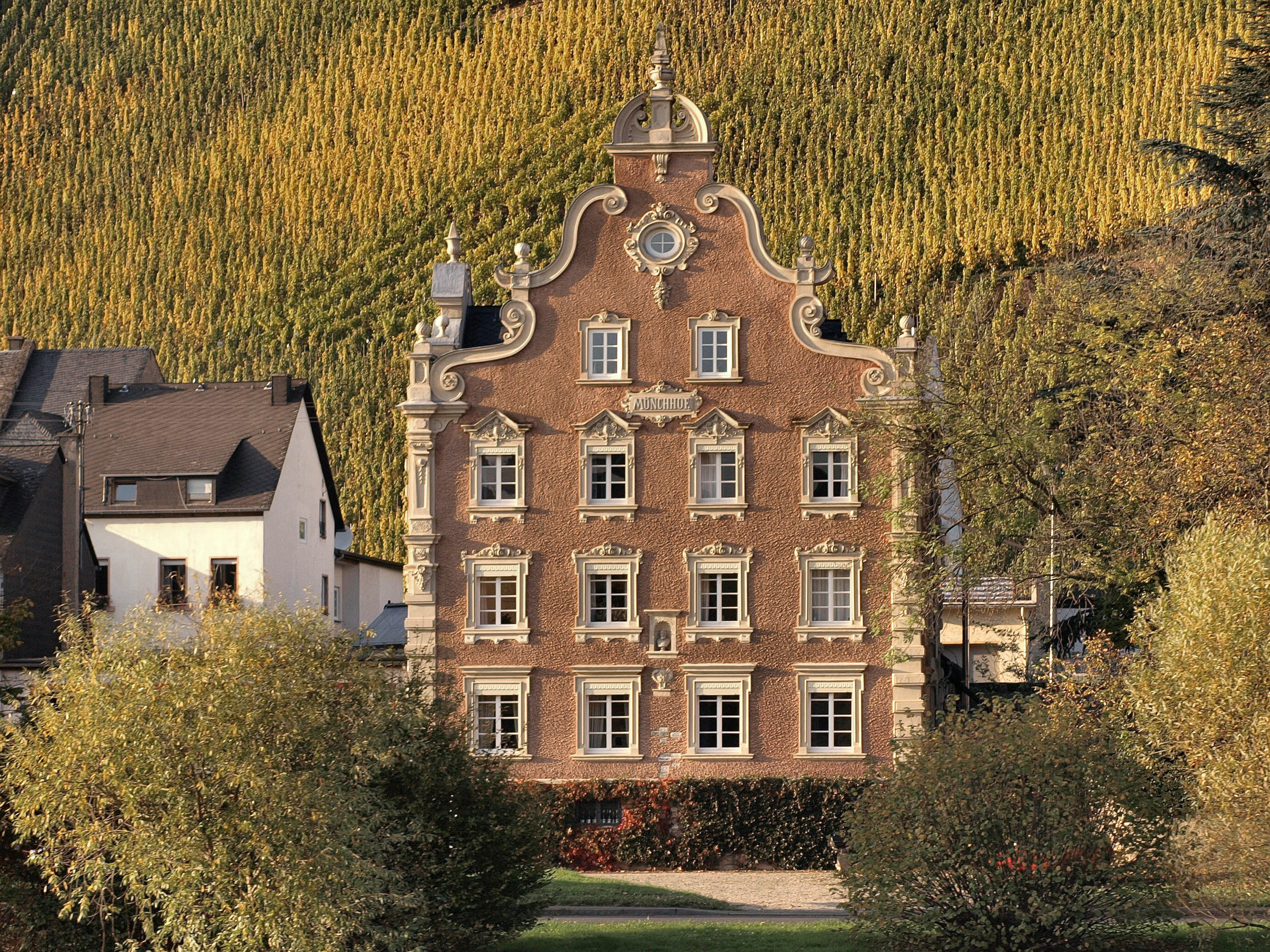 Moenchhof at Uerzig / Mosell river / Germany